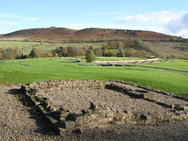 Vindolanda Looking east across the whole site from close to the visitor centre. The long section of wall running left to right in the centre of the image is the west wall of the fort; the buildings in front of the wall were part of the associated civilian settlement.